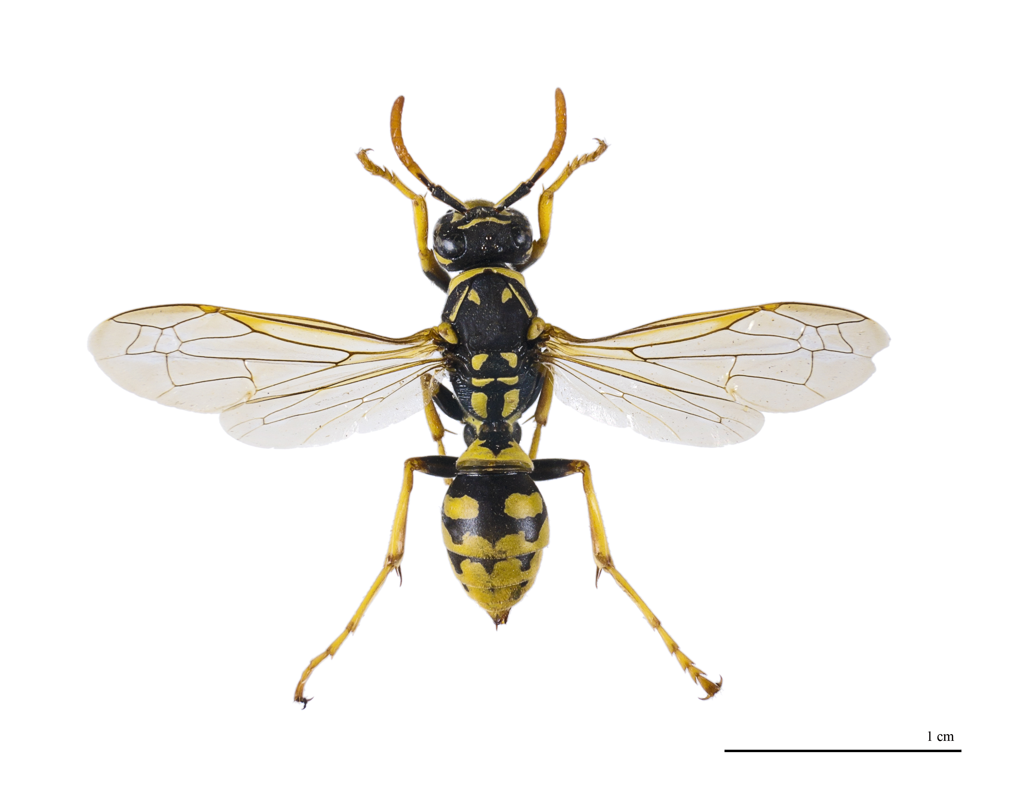 Female - Dorsal side Locality: Maourine pond, Toulouse, France